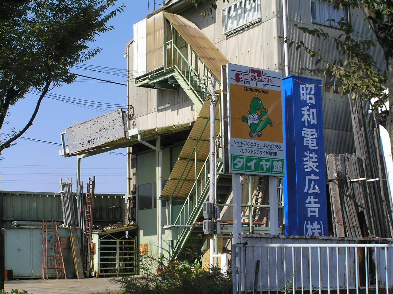 prefabrication method-プレハブ小屋